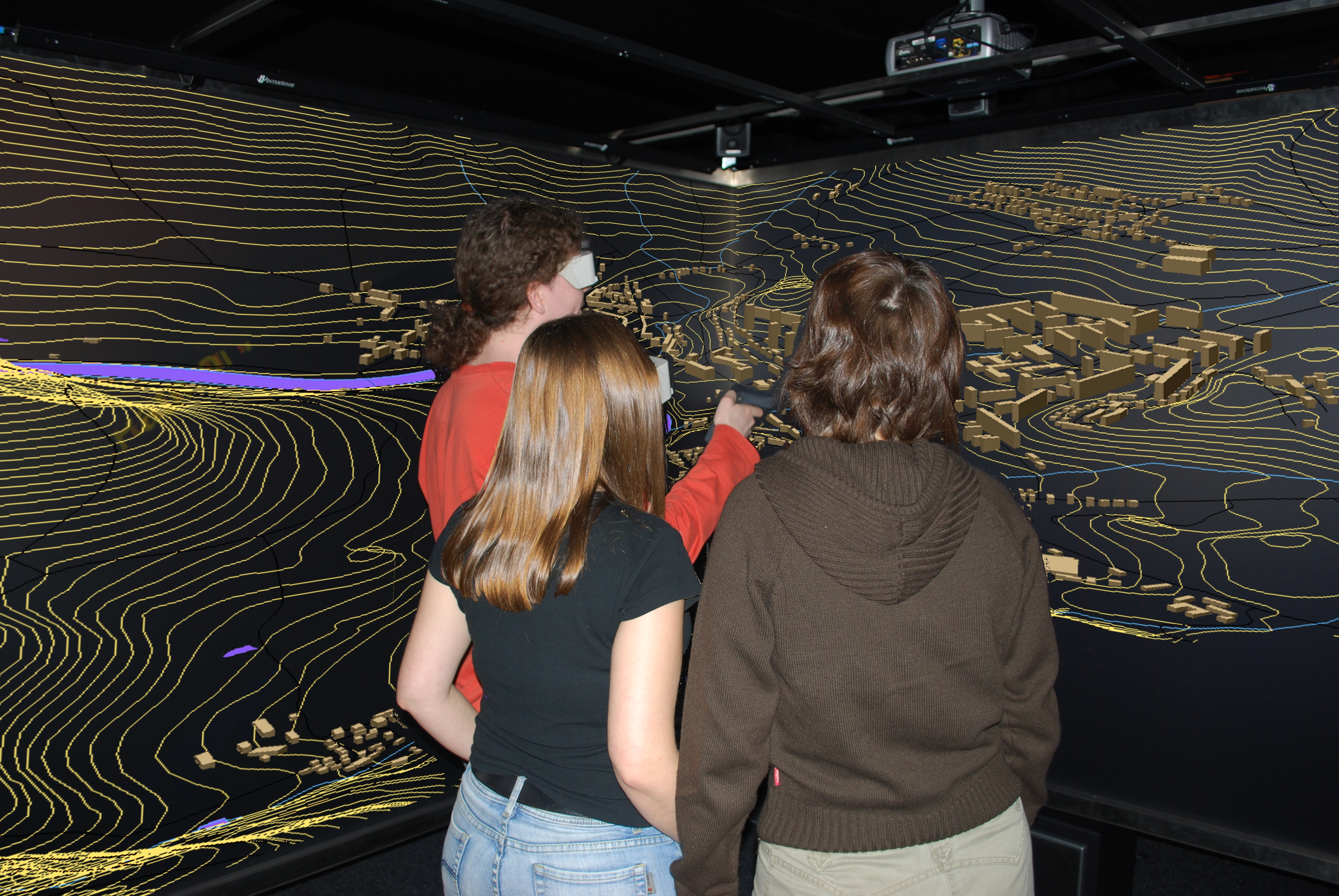 Students of Geography Department of J. E. Purkyně's University watching city model using 3D glasses in Center for virtual reality and landscape modeling (CEVRAMOK).